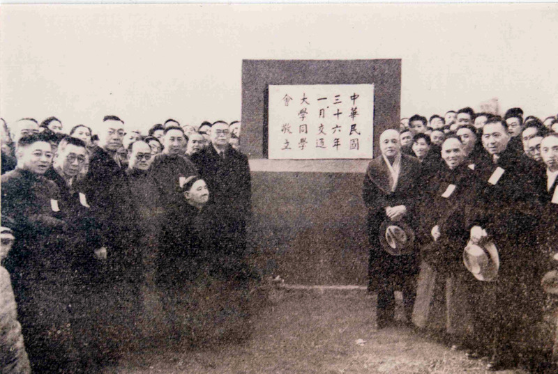 Foundation stone laying ceremony of Wenzhi Hall, Jiaotong University, Shanghai China 1947.